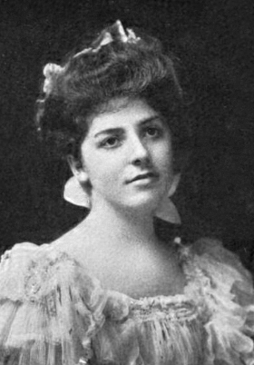 A young white woman with her dark hair in an updo with ribbons; her dress is light colored with soft gathered tulle layers around a scooped neck.